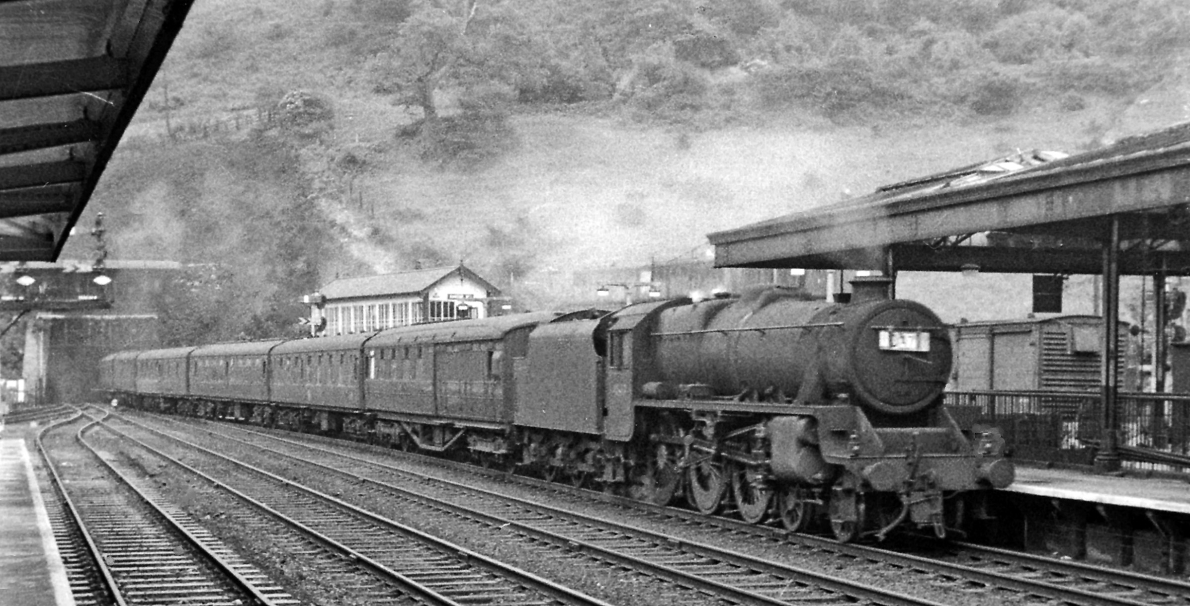 Down express entering Bangor station. View eastward, towards Llandudno Junction and Chester: ex-LNW Chester - Holyhead main line. Headed by Stanier 5MT 4-6-0 No. 45417 (built 1937, withdrawn 7/67) comes out of Bangor Tunnel past Bangor No. 1 Box with the 11.55 Manchester Exchange - Holyhead express.